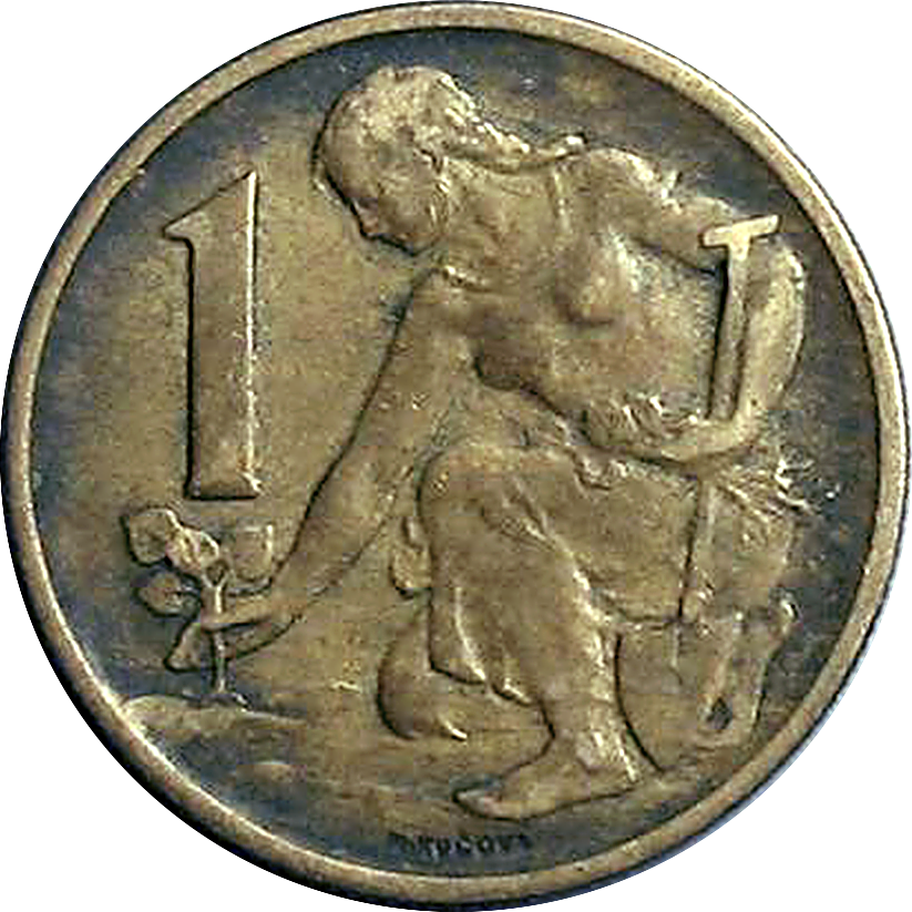 Second Czechoslovakian Crown